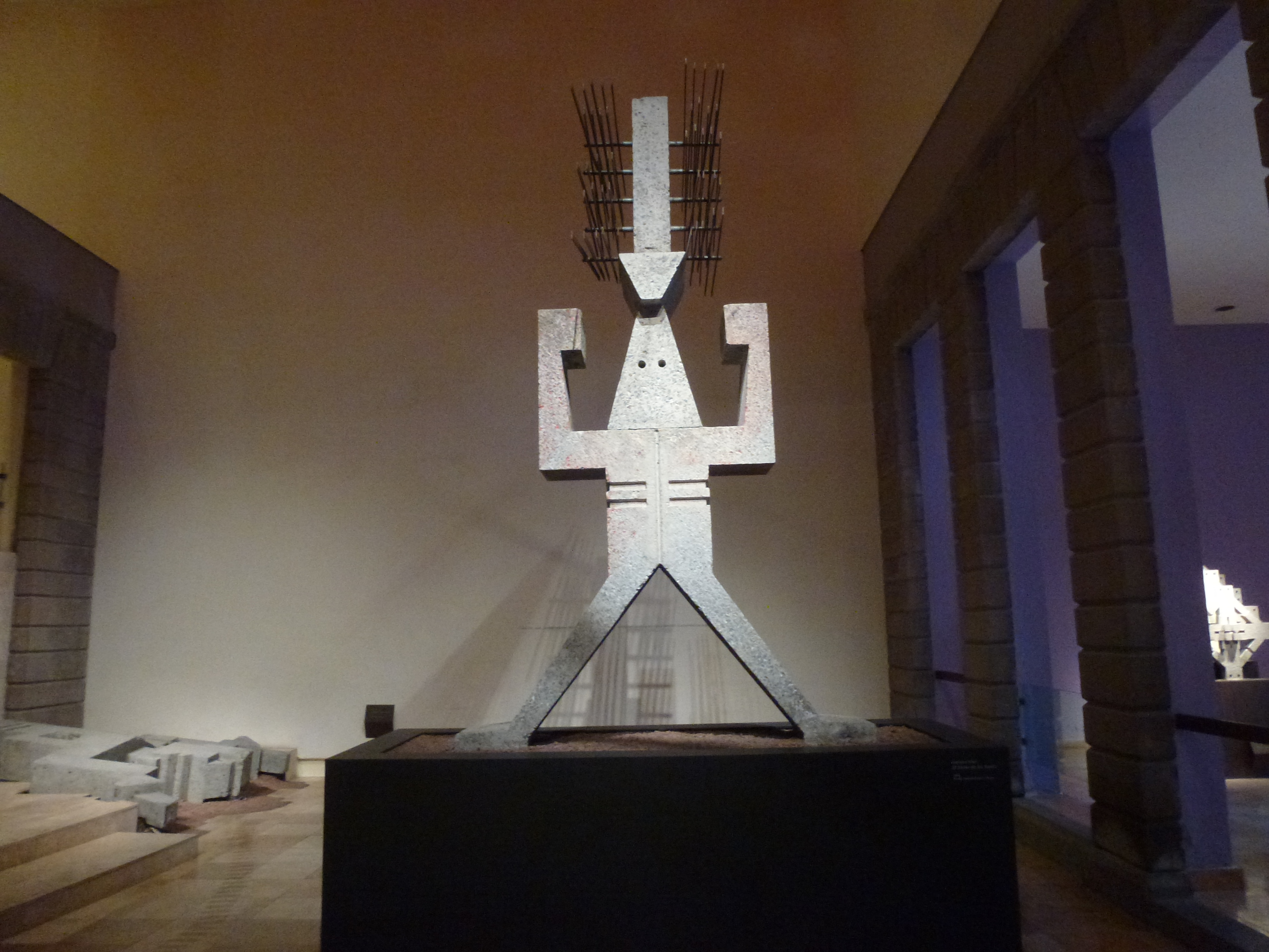 El Señor de los Rayos --- sculpture of Federico Silva,1996 (in Federico Silva Museum, San Luis Potosi, Mexico)